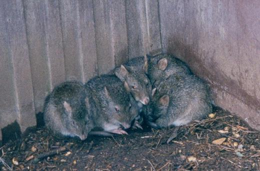 Brush-tailed Bettong (Bettongia penicillata) in Gorge Wildlife Park, Cudlee Creeks, South Australia, Australia